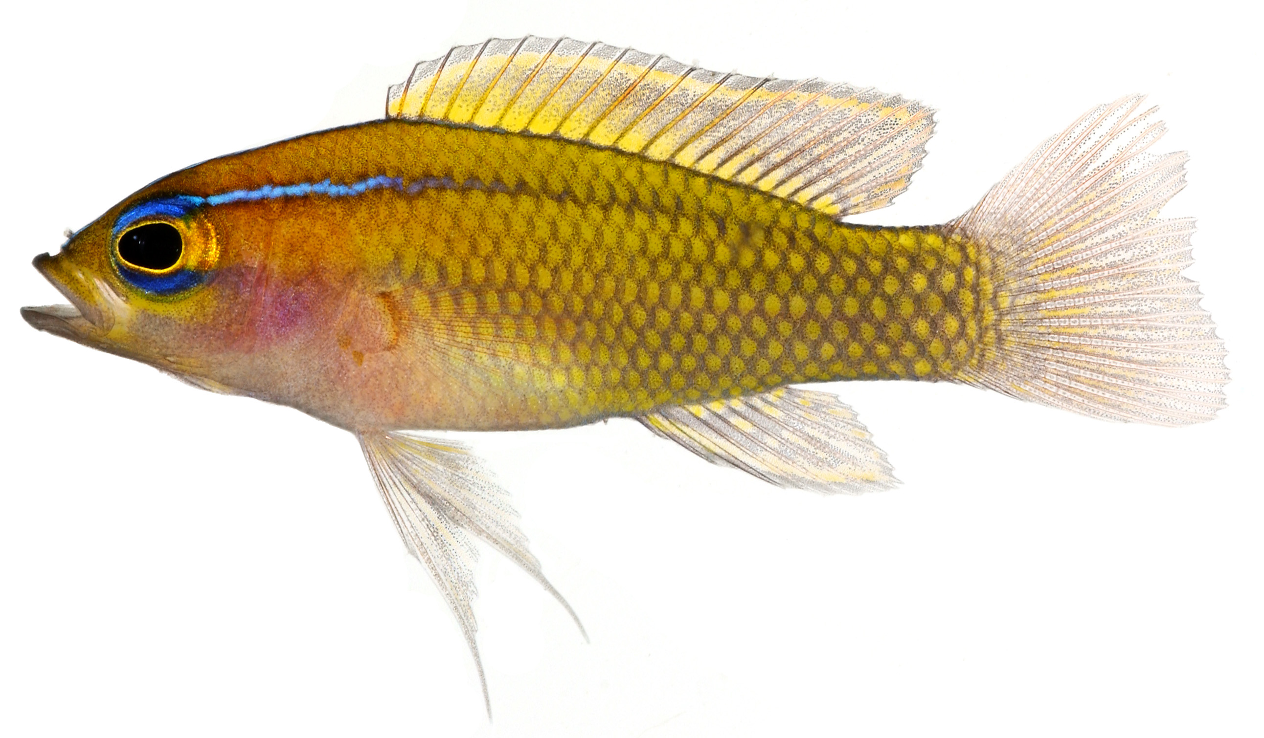 Description: The standard length of the adult threeline basslet is nineteen millimeters. This image was taken with a Nikon D1X 5.47-megapixel camera with a 105-millimeter f/2.8D AF Micro-Nikkor lens and dual Nikon SB28 flash units. Creator/Photographer: Belize Larval-Fish Group 2002 The Division of Fishes of the Smithsonian’s National Museum Natural History has sent several teams to Belize in order to photograph larvae in the field. The 2002 team included Julie H. Mounts, David G. Smith, Carole C. Baldwin, and James Van Tassell. Medium: Digital photograph Geography: Belize Date: 2002 Persistent URL: Repository: National Museum of Natural History , Division of Fishes Image ID: C5-10